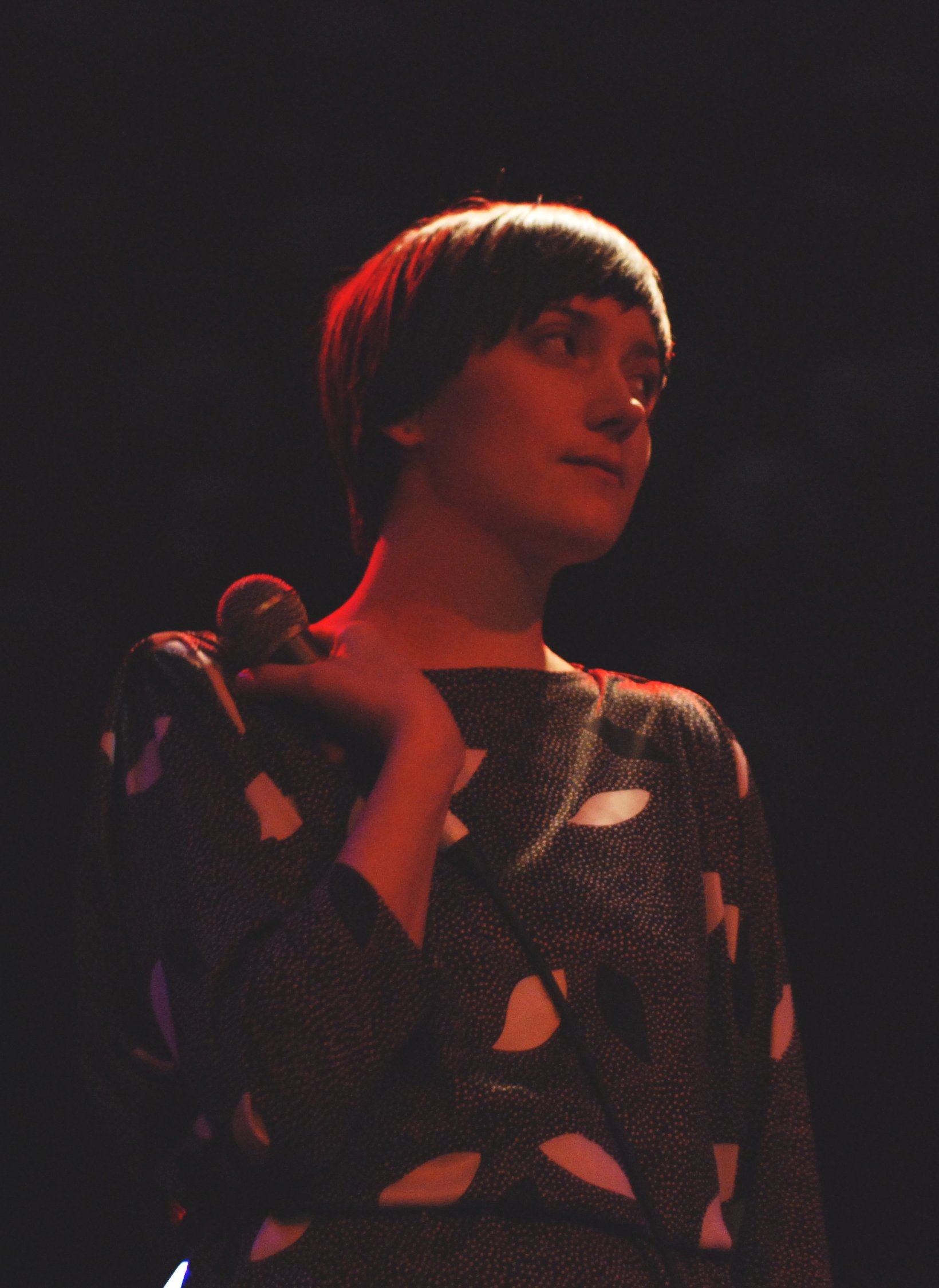 Victoria Bergsman at Bowery